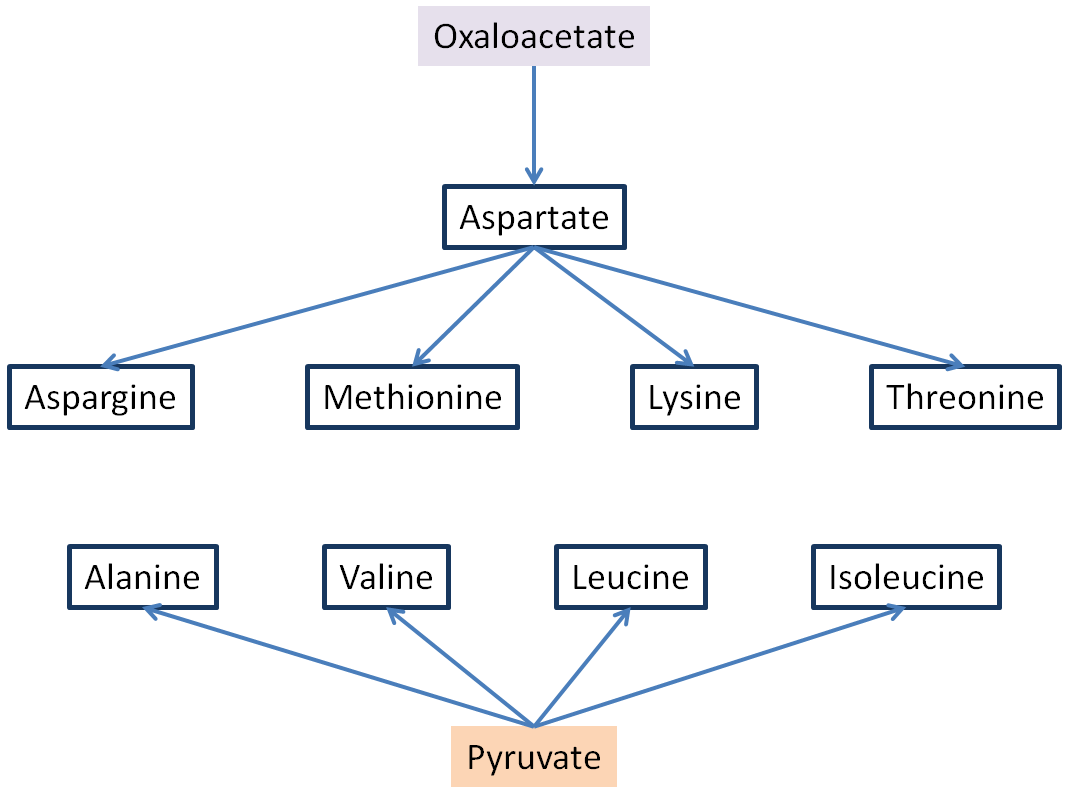 Oxaloacetate and pyruvate aminoacid synthesis